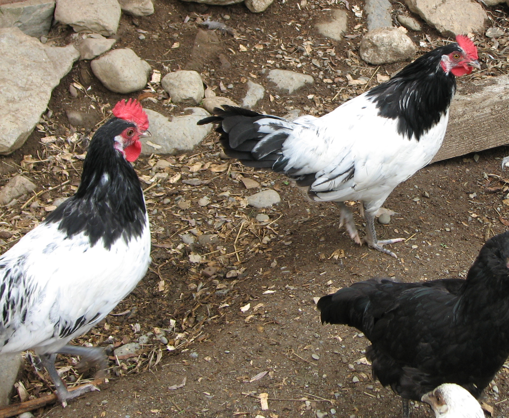 Two Silver Lakenvelder cockerels in a chicken yard.